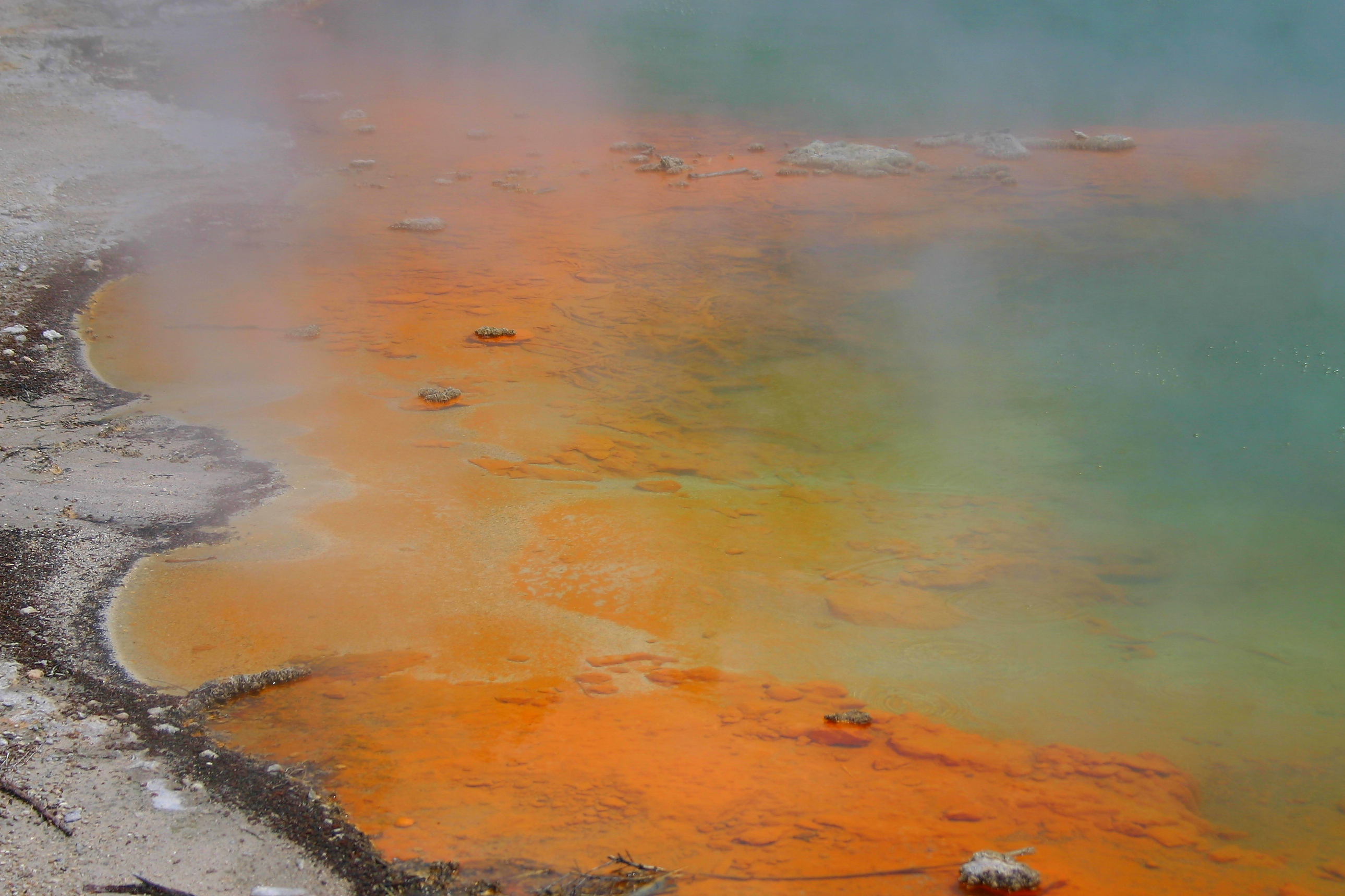 Edge of Champagne Pool, Wai-O-Tapu, near Rotorua, New Zealand